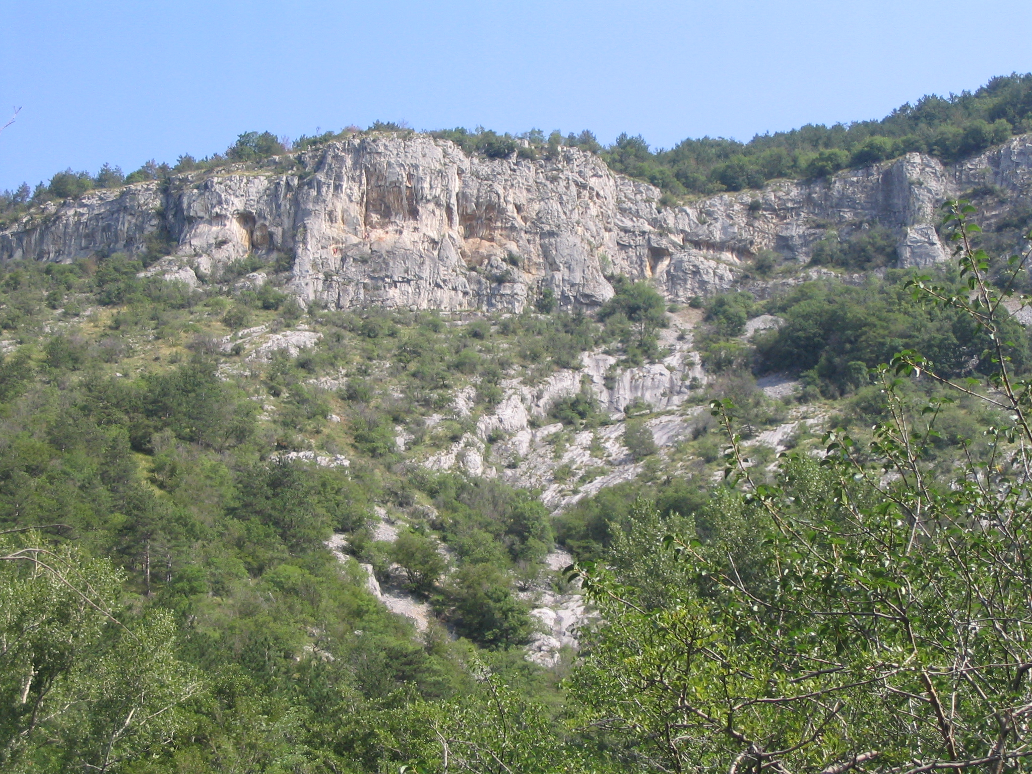 The "Windows Cave" in the Rosandra River Valley near Trieste. Photo taken by —IzTrsta 11:23, 5 January 2006 (UTC) in July 2005 with a digital camera.